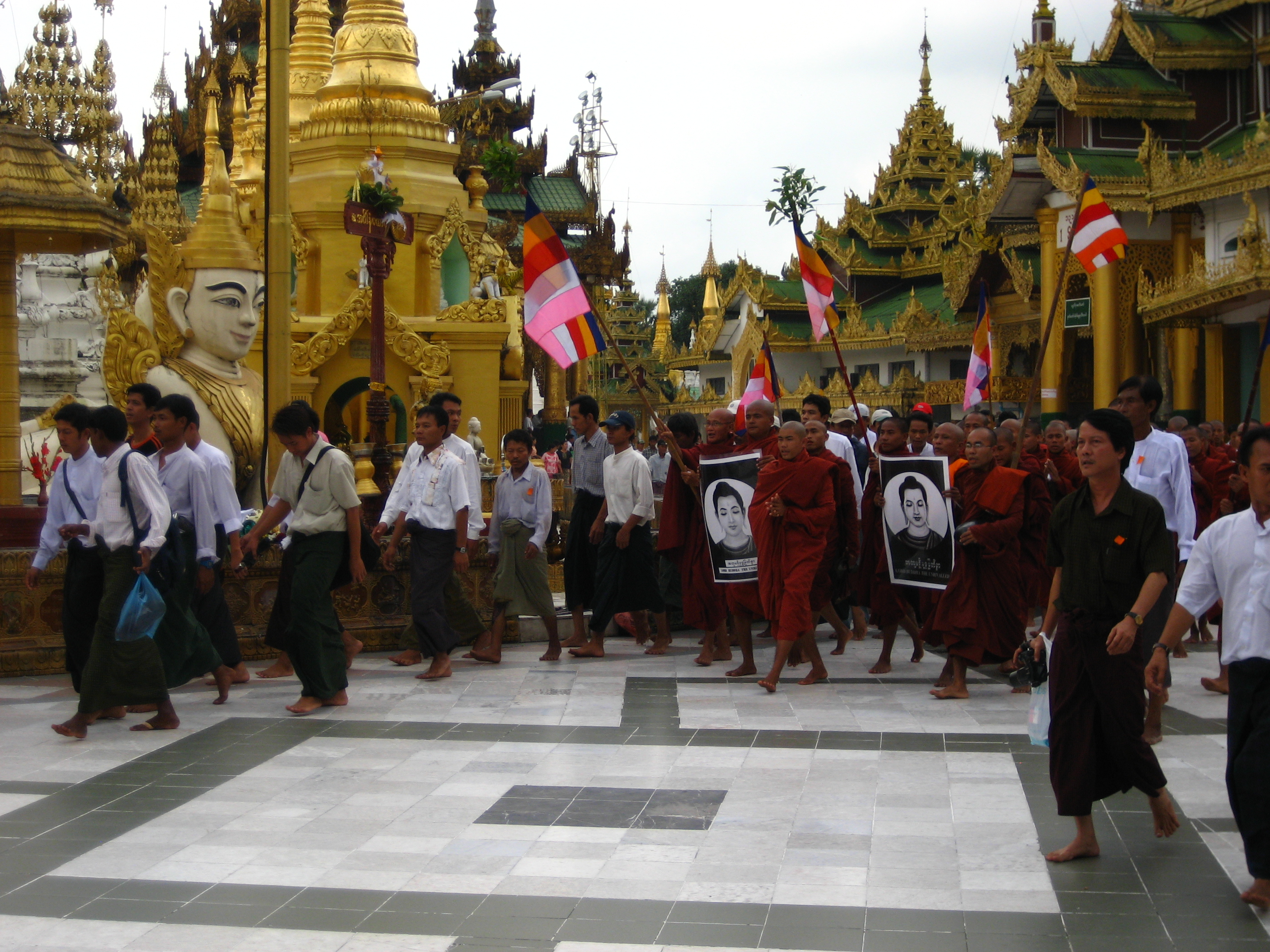 Monks Protesting in Burma